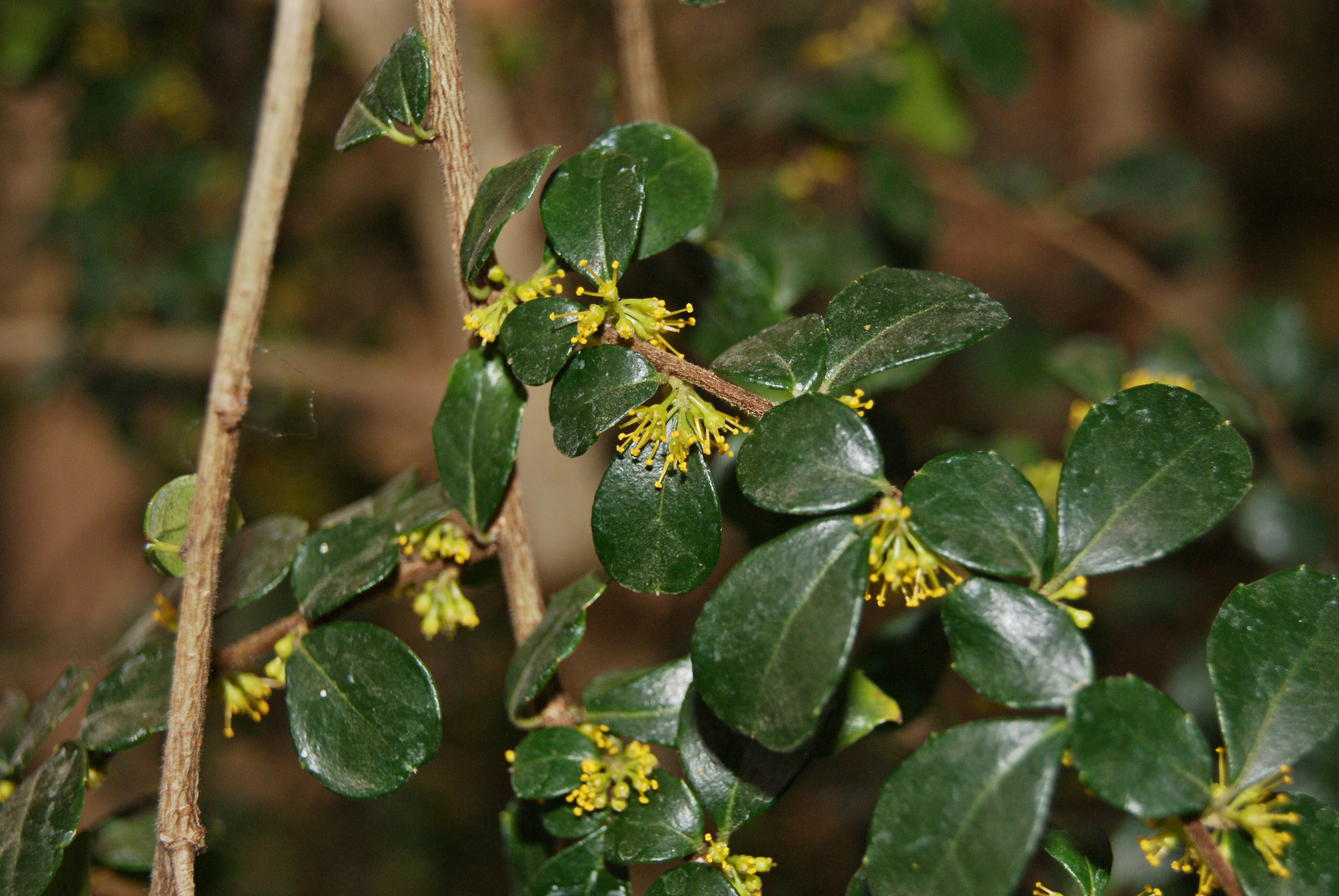 Azara microphylla